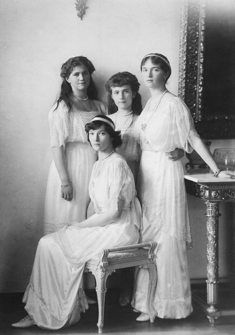 Maria, Tatiana, Anastasia and Olga Nikolaevna of Russia